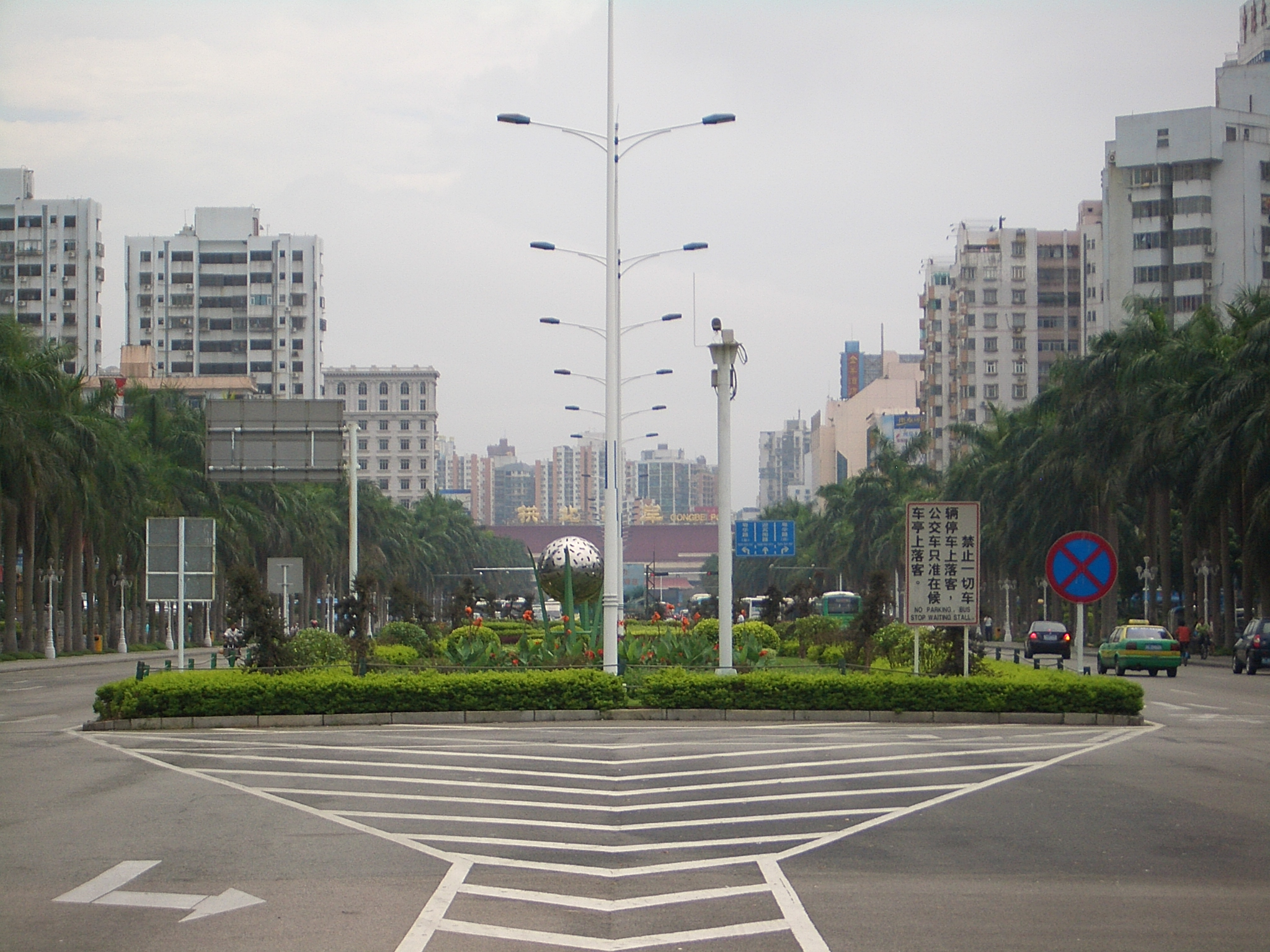 Zhuhai, Guangdong province, China, Gongbei district, Yingbin South Road. We can see Gongei port and in the background Macau.